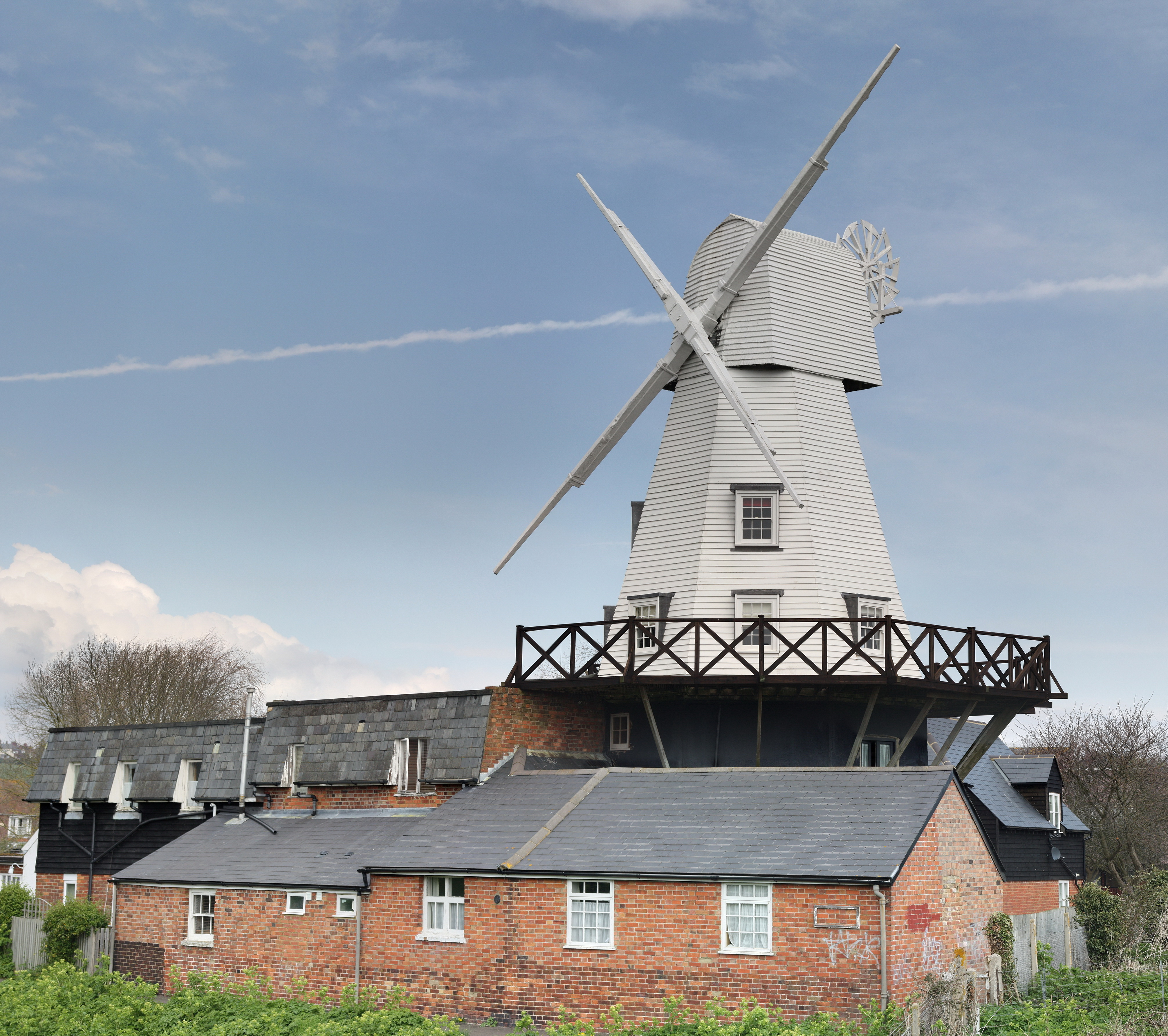 Gibbet Mill is a Grade-II listed windmill in Rye, East Sussex. Currently run as a bed & breakfast, it is popular with windmill enthusiasts from all over the world. It is believed that a windmill has been at this site since at least 1594, though the mill itself was rebuilt in 1932 following a fire in 1930. Final image is the stitched result of 21 separate images.